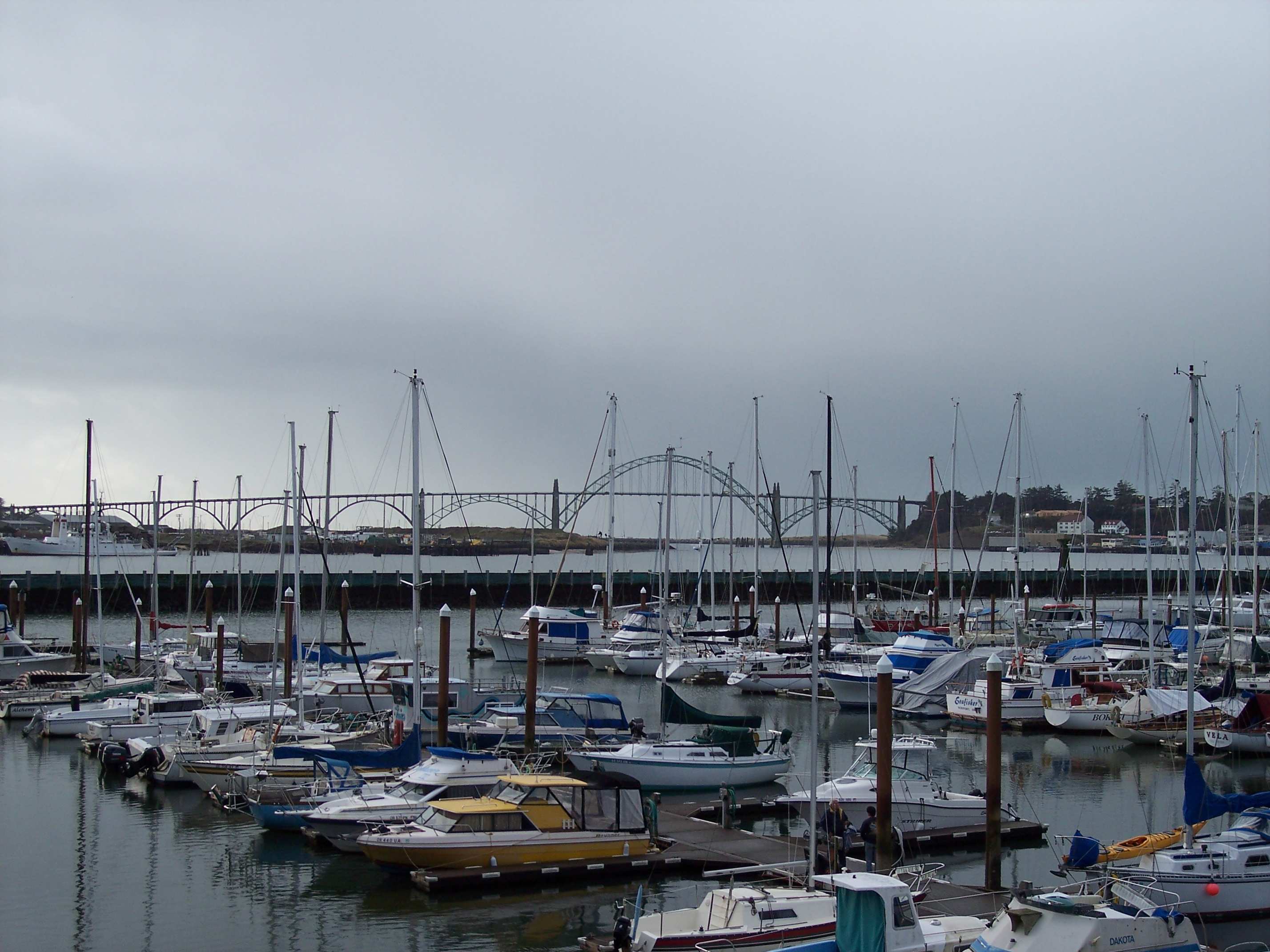 Yaquina Bay Bridge (Newport, Oregon)